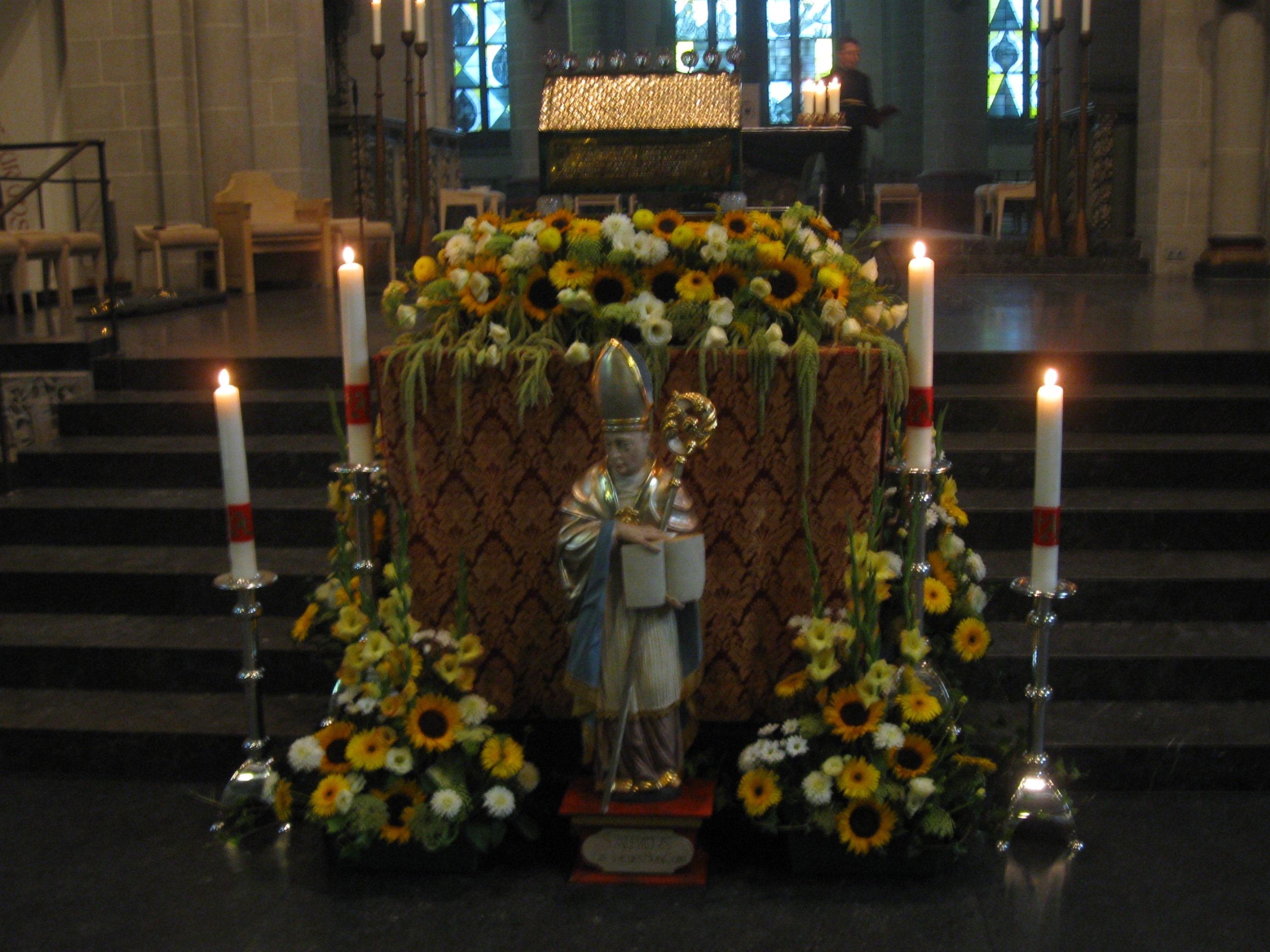 The relics of St. Altfrid, displayed after Mass on his feast day, August 15th, in the Essen Cathedral in Germany.